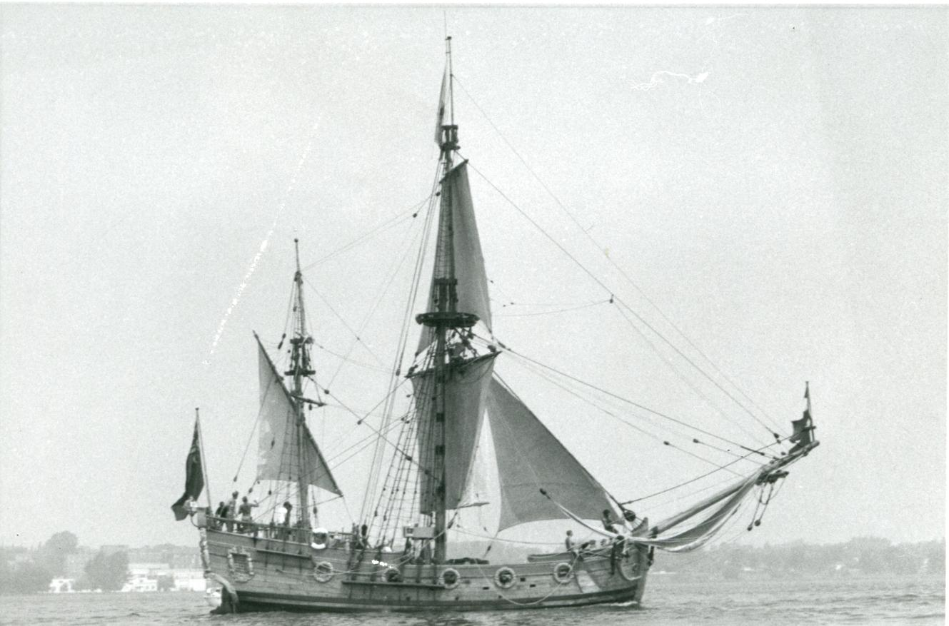 Photograph of the Nonsuch visiting Belleville, Ontario. This was a reproduction built by the Hudson Bay Company in 1968 of the 1650 original, to celebrate the company's tercentenary in 1970. The ship arrived in Belleville on the evening of July 24th, 1970.